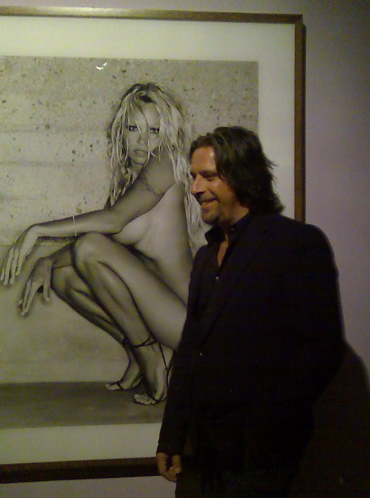 Photographer Sante D’Orazio in front of an own work at an exebition in Vienna (Kunsthaus)/Austria in oct 2006